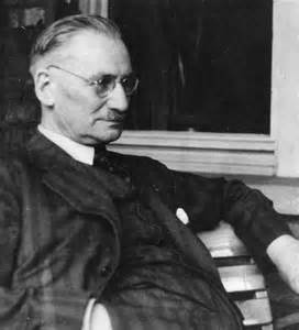 Jules Kayser